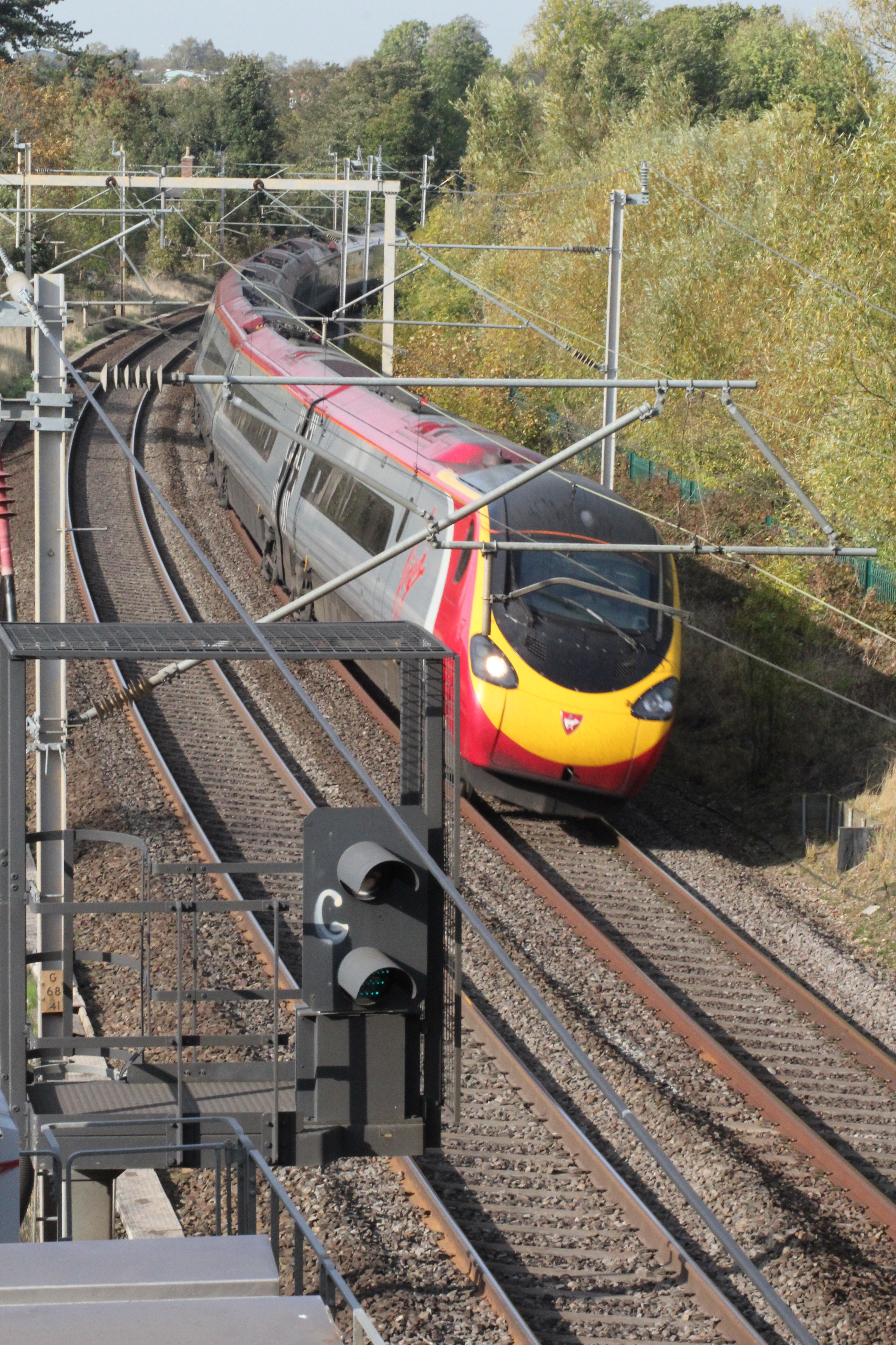 Southbound Virgin trains Pendalino tilting on the curves at Weedon, Northamptonshire UK just north of Stowe Hull tunnel on the West Coast Main Line at about 125mph c.67 miles (40 minutes) north of London